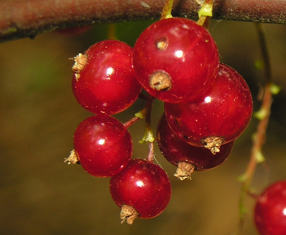 Ribes spicatum